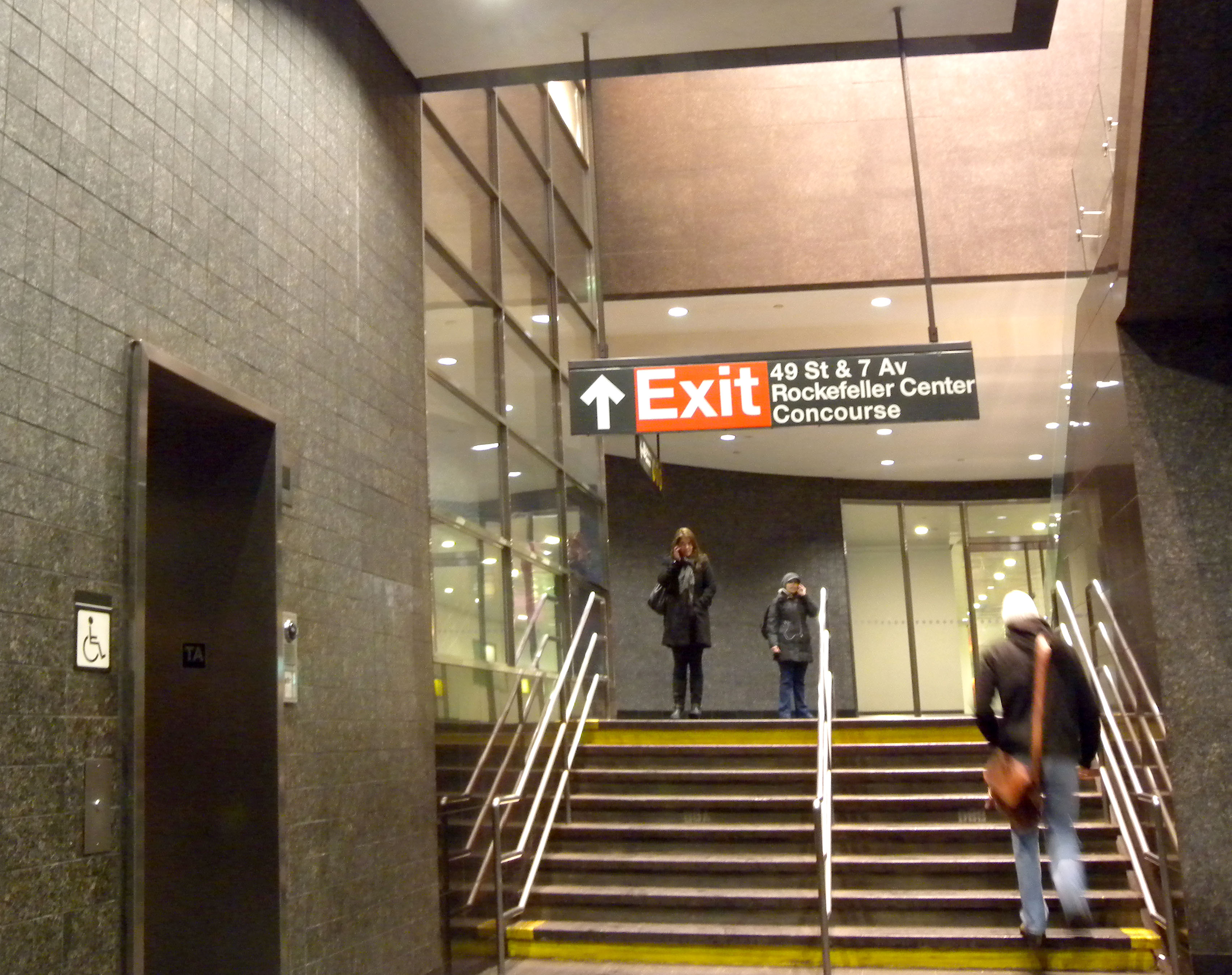 Looking east up stair to entry of corridor from 49th St BMT uptown entrance to Rockefeller Center.